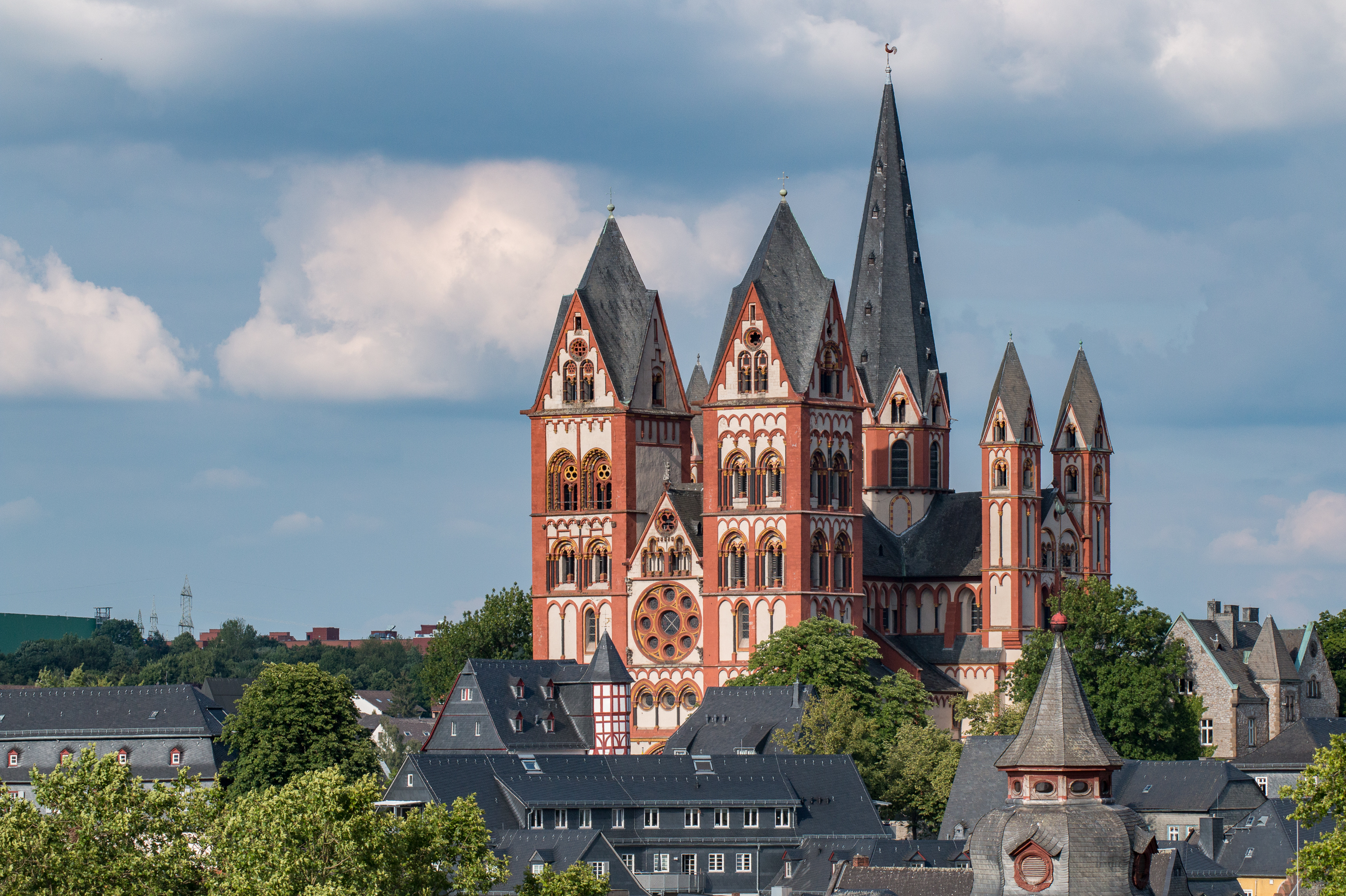 Limburg Cathedral towering the city of Limburg